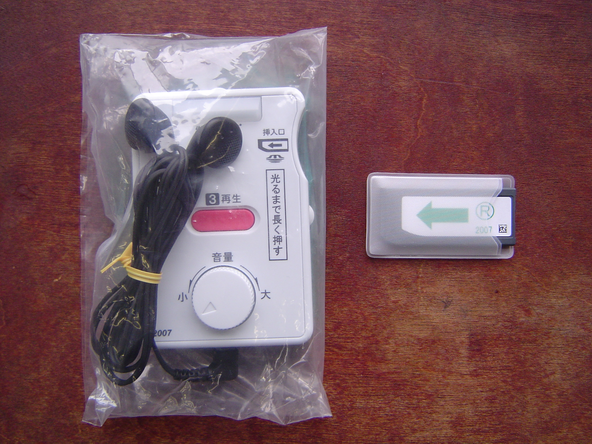 IC player for Listening exam used in 2007, before opening (National Center Test for University Admissions)